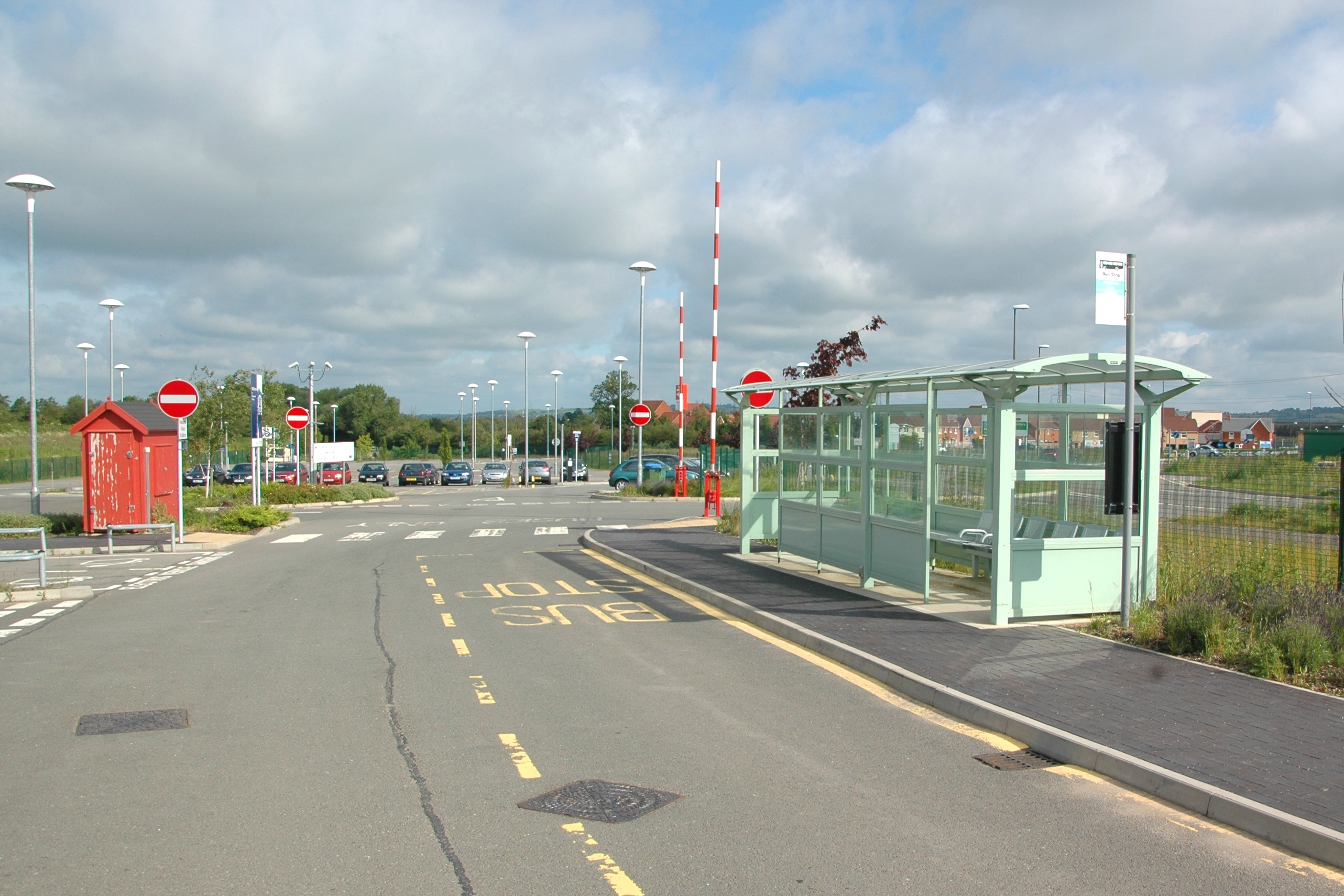 Aylesbury Vale Parkway railway station, Buckinghamshire, England: bus stop